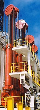 Riser tensioner by Maritime Hydraulics. Picture taken by myself